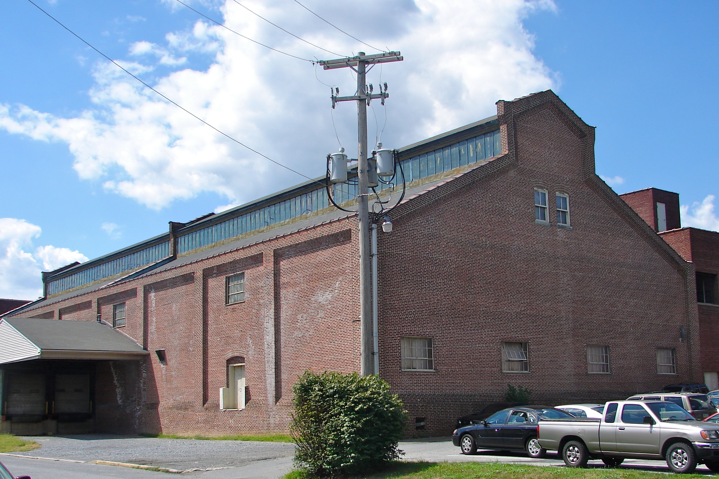 Largest building in the Eisenlohr–Bayuk Tobacco Historic District on the NRHP since September 21, 1990. The historic district is near North Water Street, at West Liberty Street (this building is a bit south of that) in the Stadium District of Lancaster, Pennsylvania. Part of the NRHP multiple submission for tobacco industry buildings in Lancaster